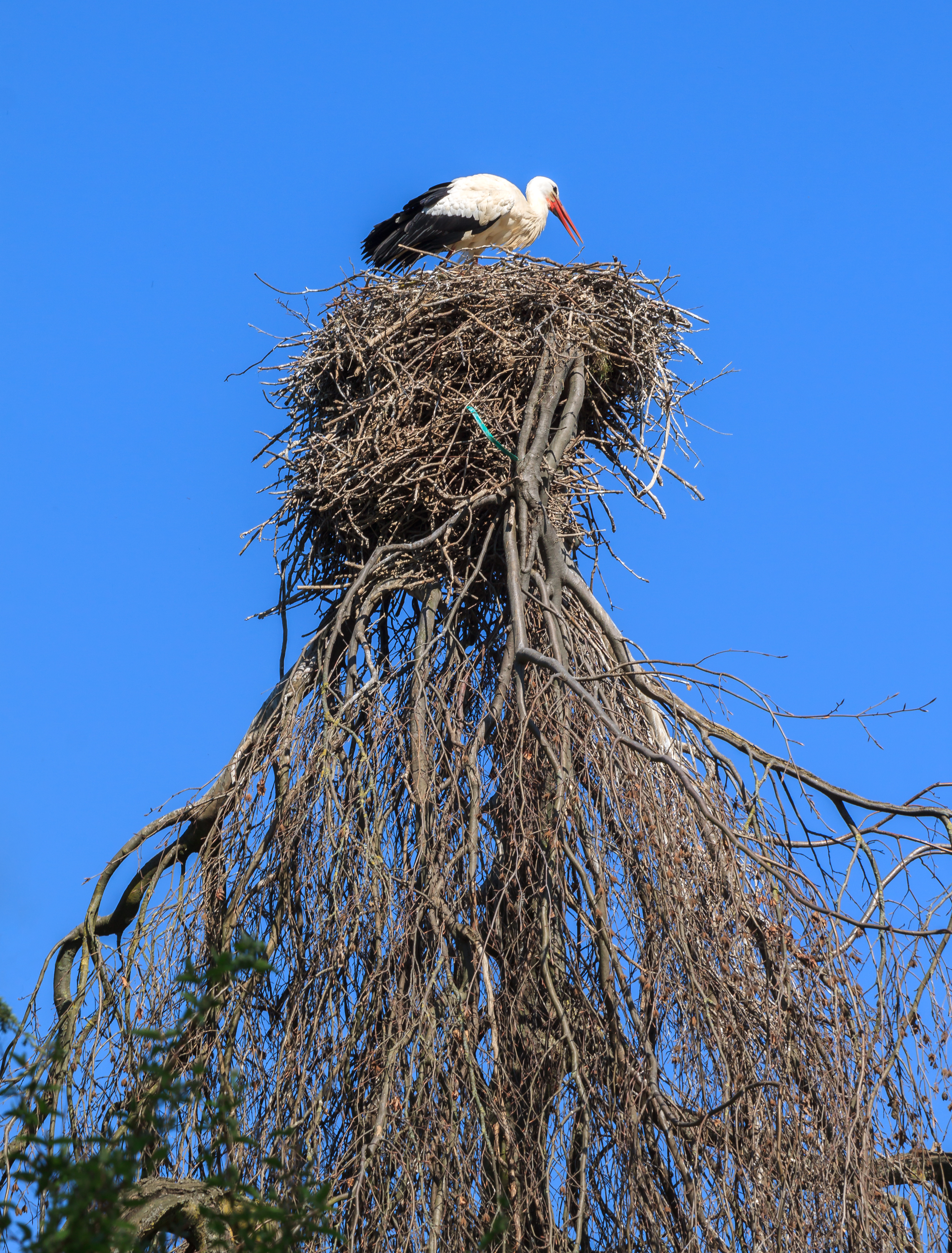 Ciconia ciconia (Linnaeus, 1758), White stork; Heidelberg Zoo, Heidelberg, Germany.